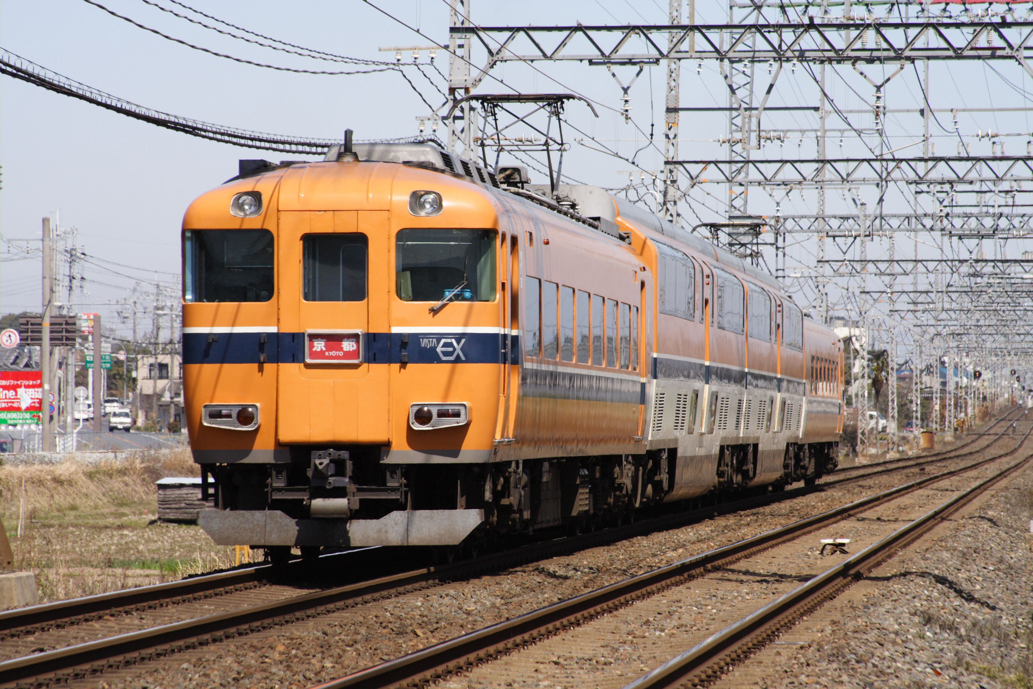 近畿日本鉄道・30000系電車/series 30000 electric car of Kintetsu Corporation